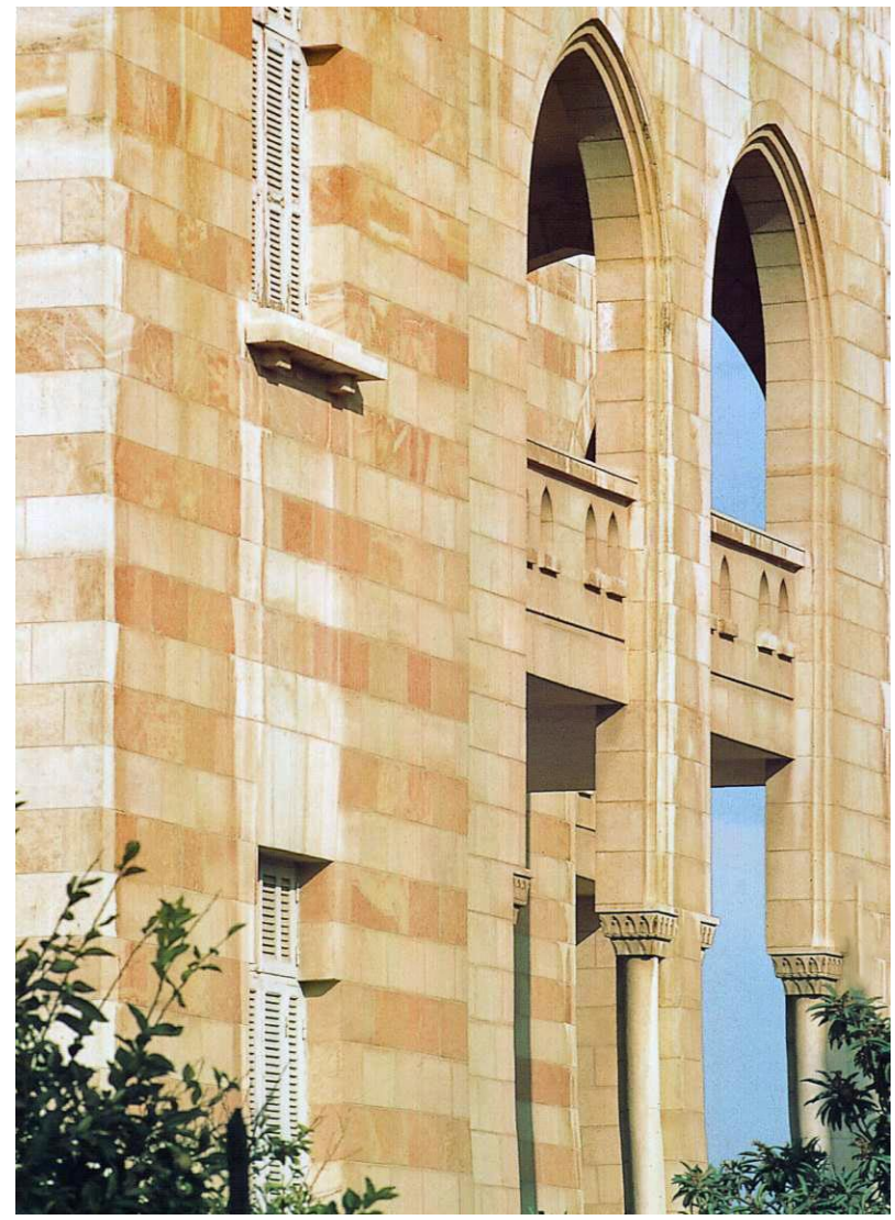 Figure 4.5. View of the 1940s Al-Bilbeisi house in Jabal Amman. Note. From Old Houses of Jordan: Amman 1920 – 1950, by M. al-Asad, 1997, Amman: Turab, p. 50. Copyright 1997 by Turab. Courtesy of Turab and B. Lyons.